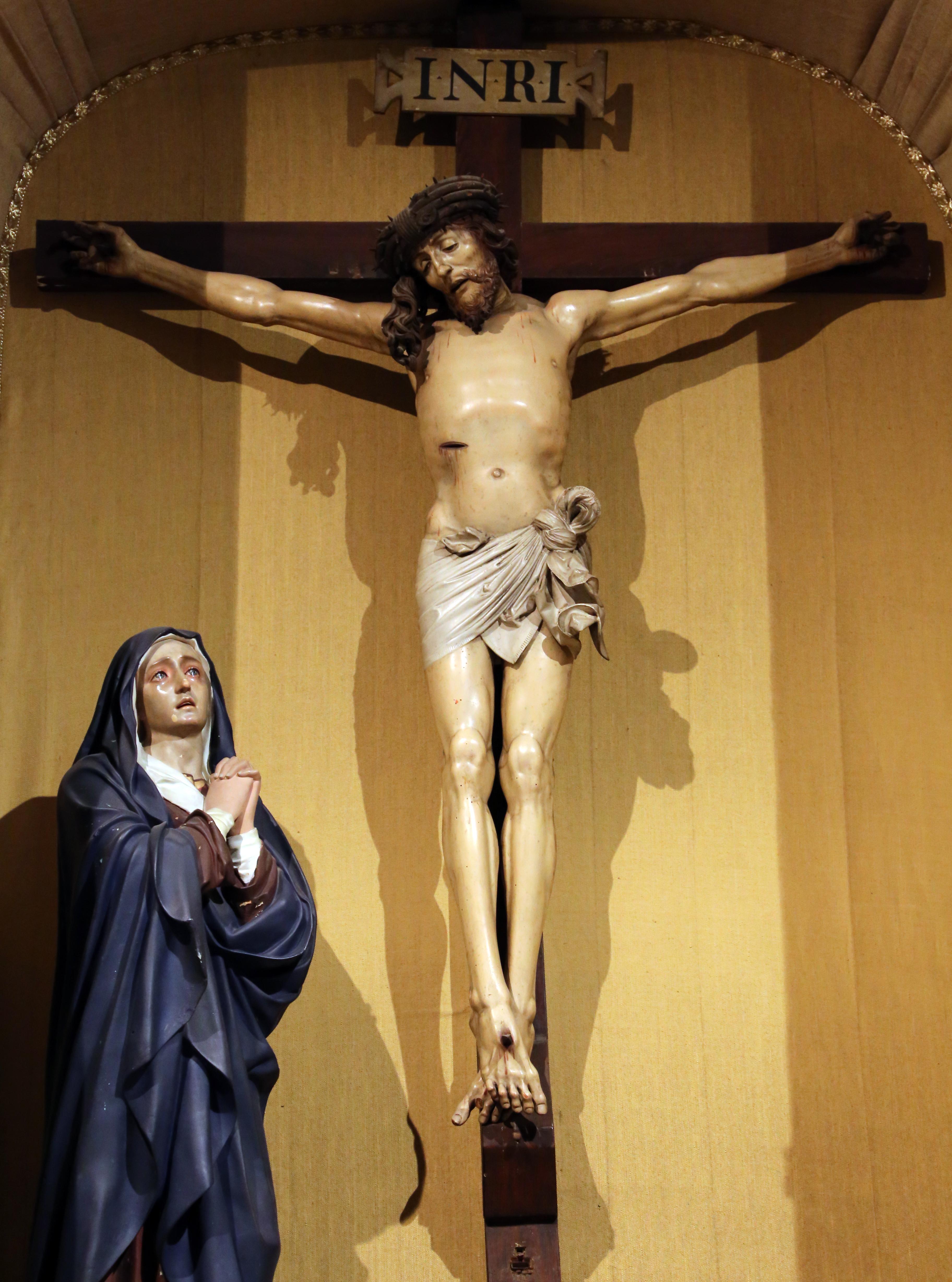 Ognissanti (Florence) - Interior